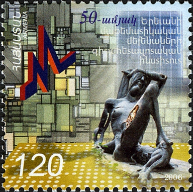 Stamp of Armenia : Yerevan Mathematician Machines Institute